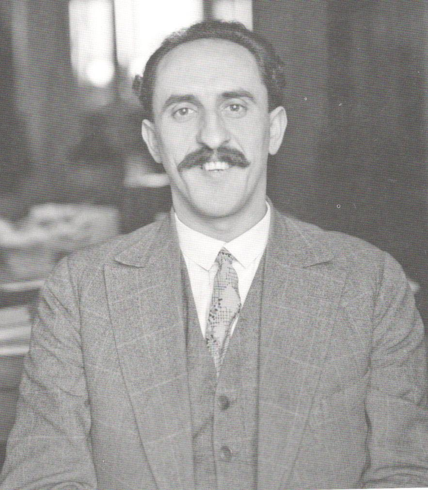 Ljudevit Barić, geologist from Croatia